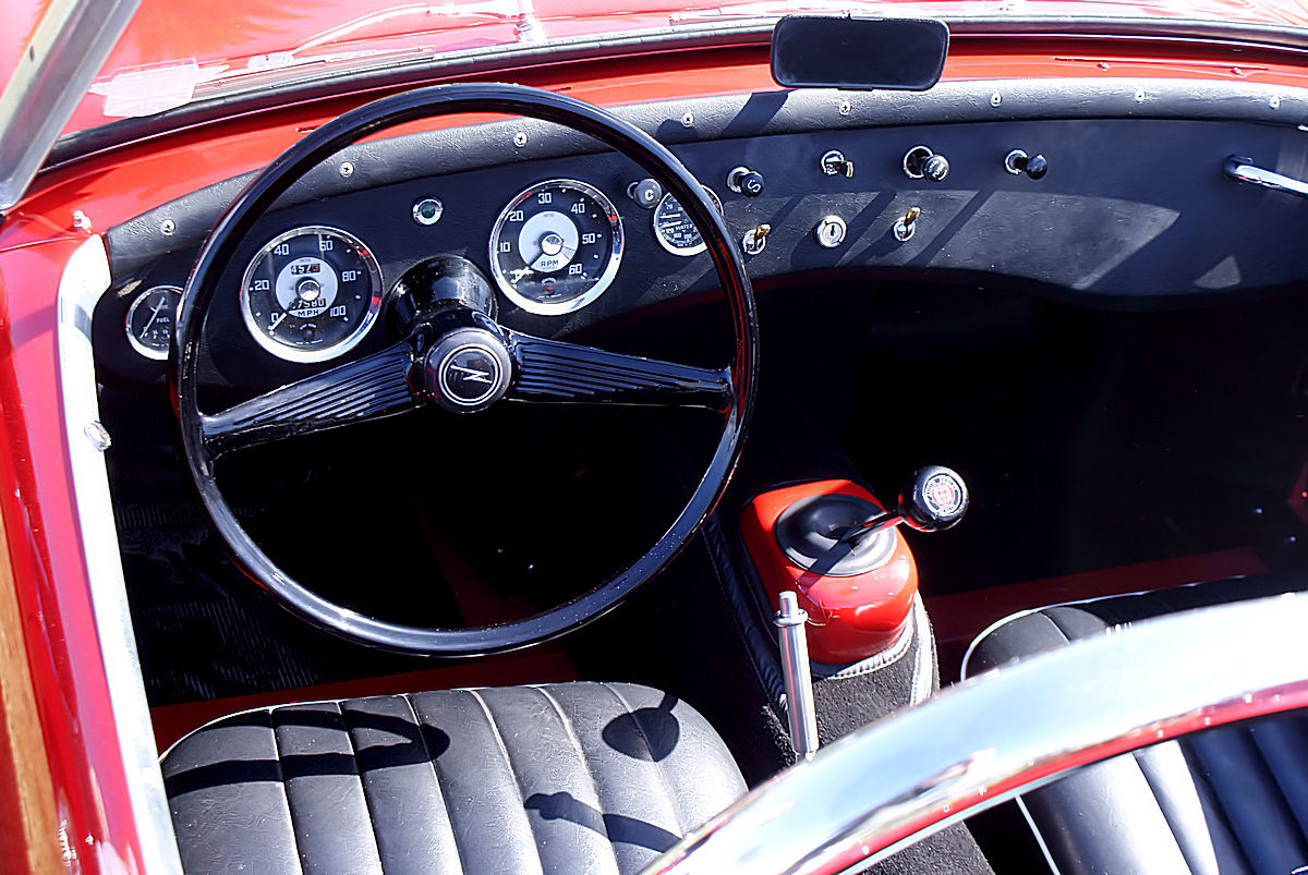 1962 Austin-Healey Sprite Mk II